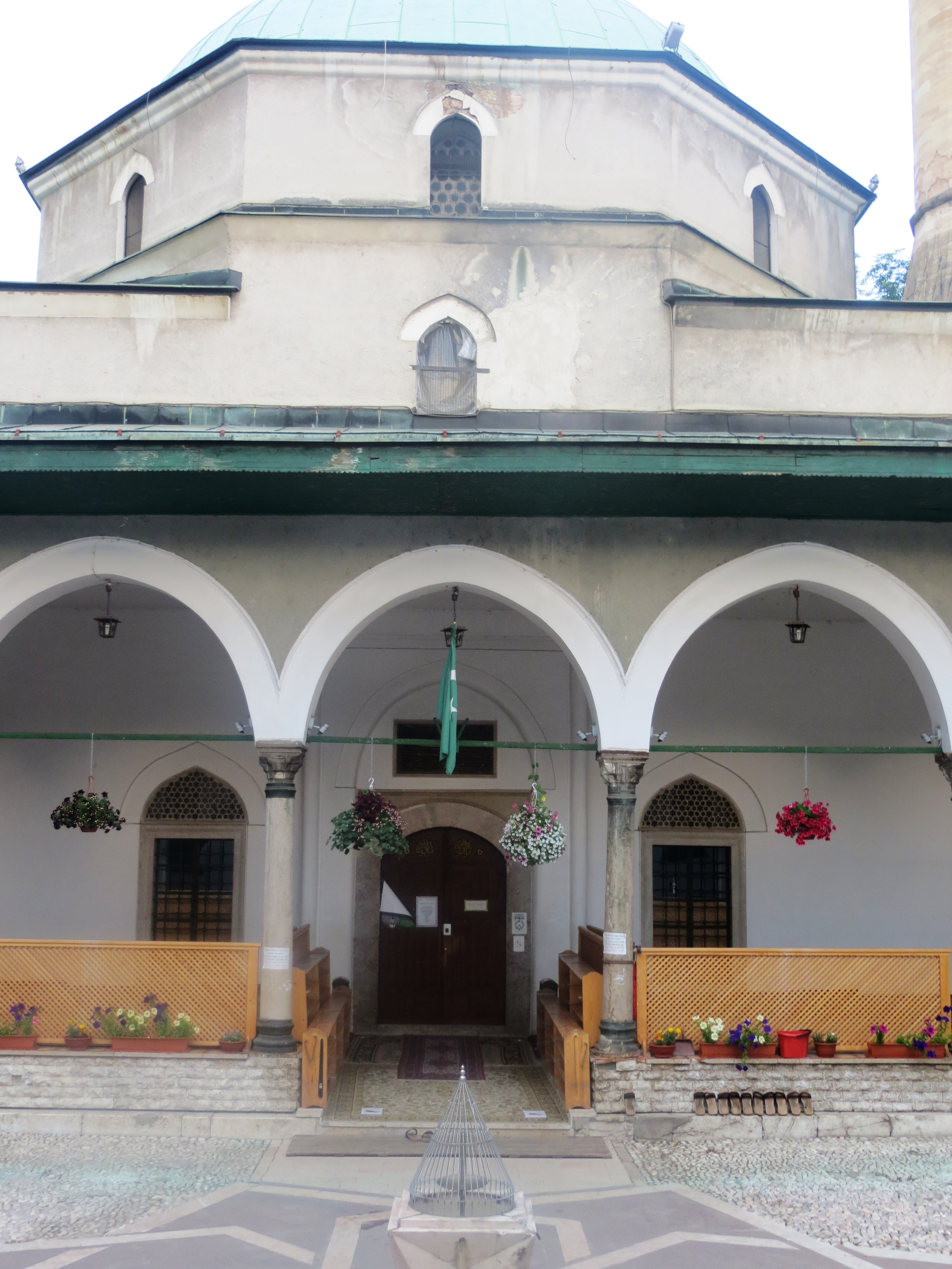 Old part of the city of Sarajevo, Bosnia-Hercegovina. All the buildings are at least 100 years old, thus not violating the laws on Freedom-of-Panorama in the country.